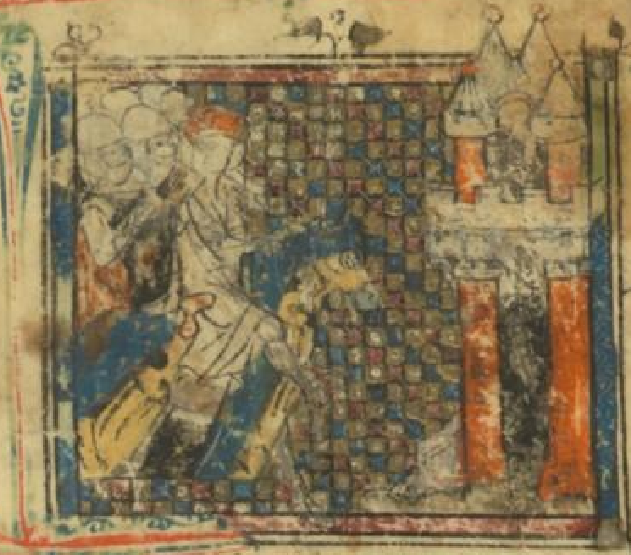 Miniature from the first page of the medieval manuscript #24369 of the chanson de geste about Aymeri de Narbonne, displaying Charlemagne in front of Narbonne